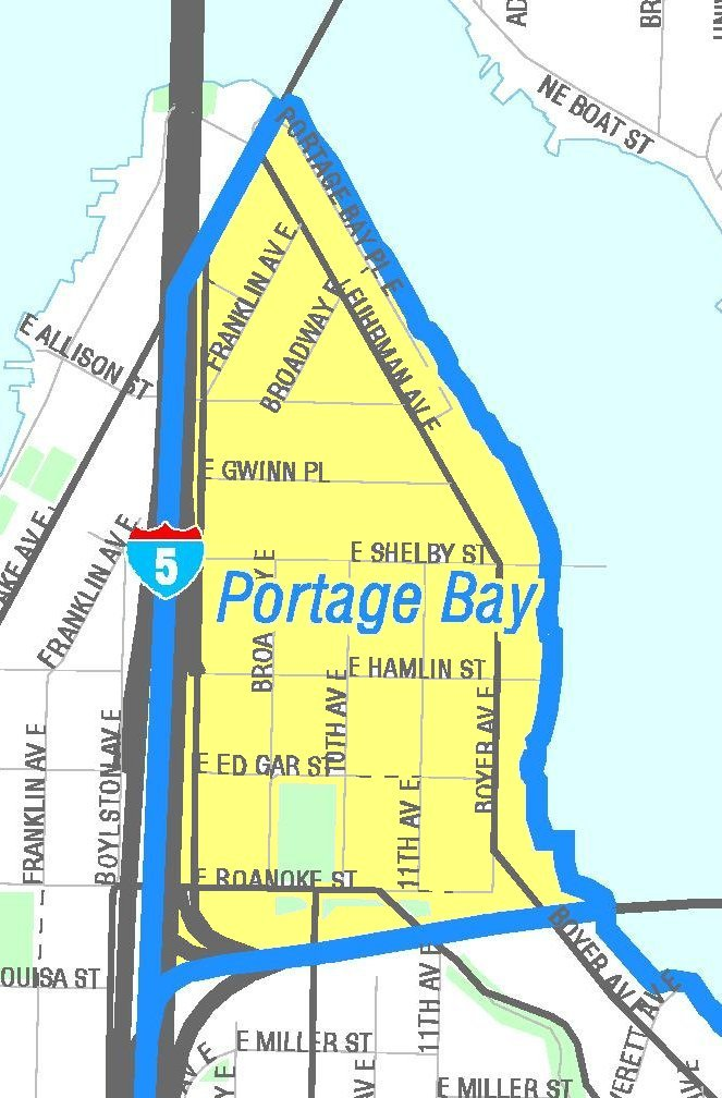 Map of Seattle's Portage Bay neighborhood. Like the other maps from the Seattle City Clerk's Neighborhood Map Atlas, this is not an official map; in particular, borders are not official. Disclaimer: The Seattle Neighborhood Atlas, which the Seattle Clerk's Office has placed in the public domain (as confirmed by OTRS ticket 2008033110016048) contains some general commentary on the maps, "About Maps", which should typically be linked as an accompaniment to these maps to (in their words) "minimize the numerous 'complaints' or comments by users who feel it necessary to point out how the Clerk's Office is 'wrong' about a certain section of town." In particular, "About Maps" says that the atlas "is designed for subject indexing of legislation, photographs, and other documents in the City Clerk's Office and Seattle Municipal Archives" and "is not designed or intended as an 'official' City of Seattle neighborhood map. There are many different ideas of what neighborhood districts exist in Seattle and what their names are…"